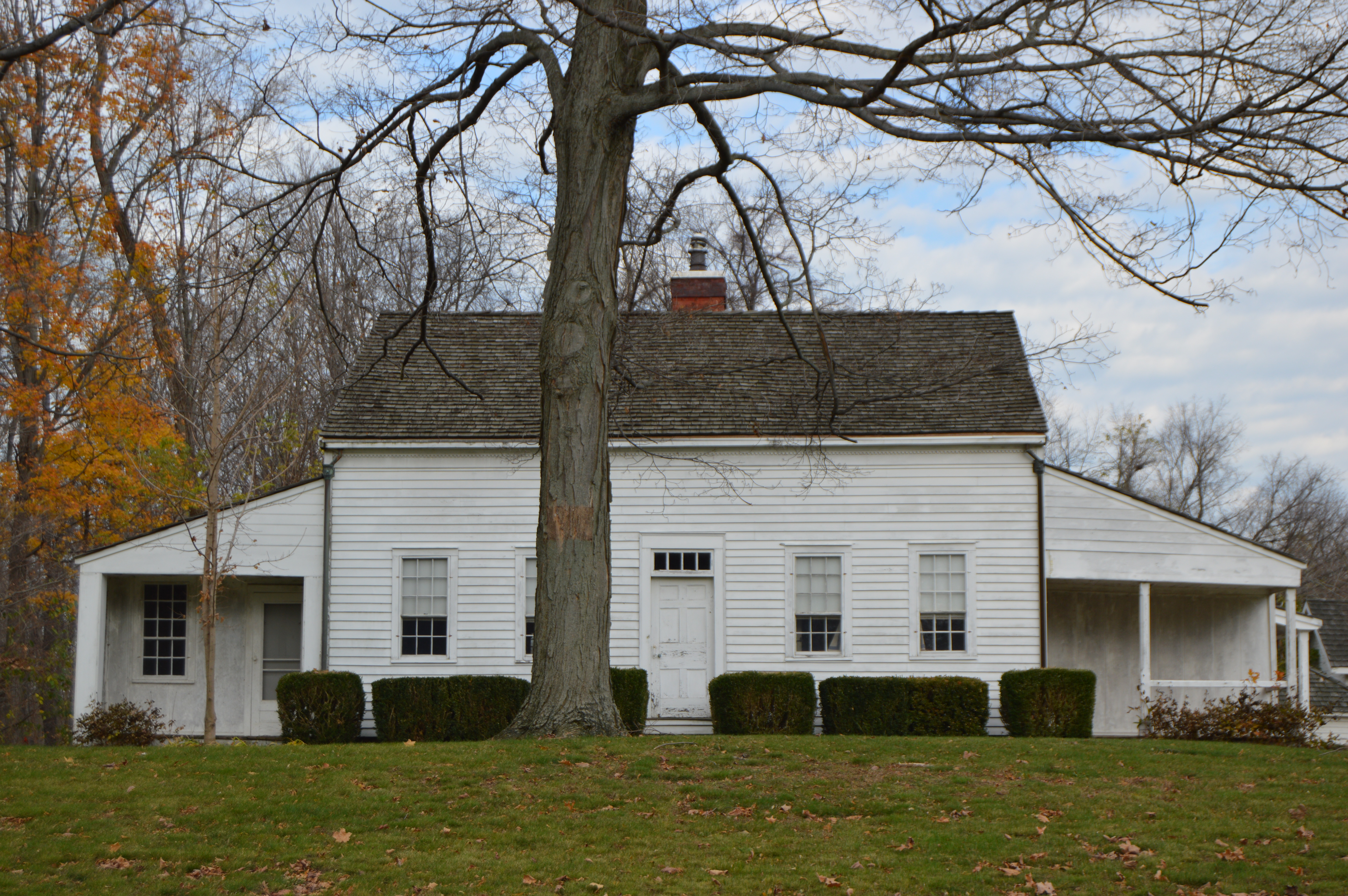 Front of Shandy Hall (now a museum), located at 6333 S. Ridge Road (State Route 84) southwest of Geneva in Harpersfield Township, Ashtabula County, Ohio, United States. Built in 1815, it is listed on the National Register of Historic Places.